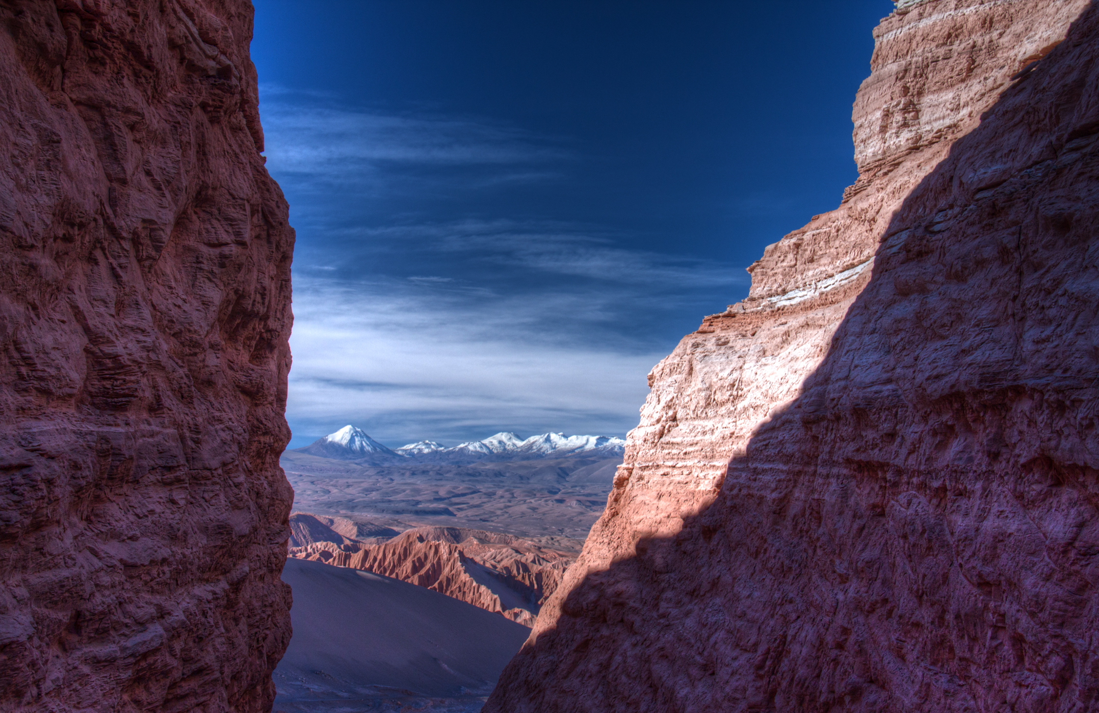 View over the Atacama desert